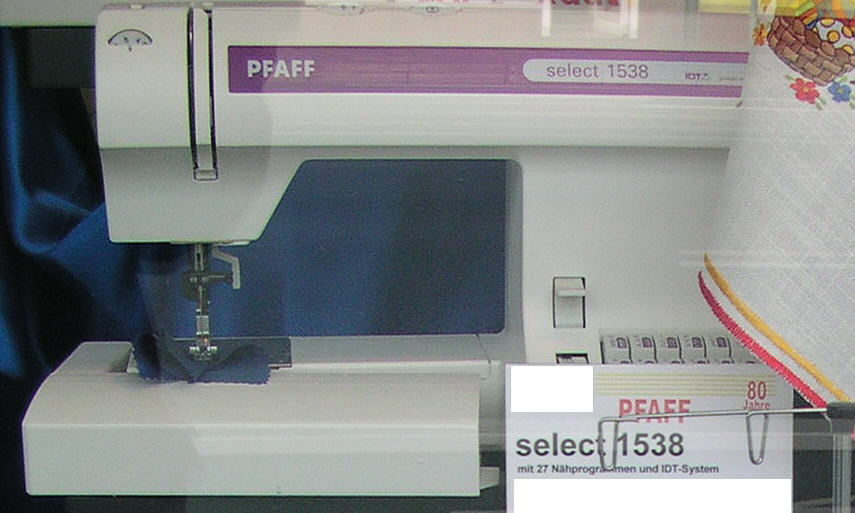 Pfaff sewing machine select 1538